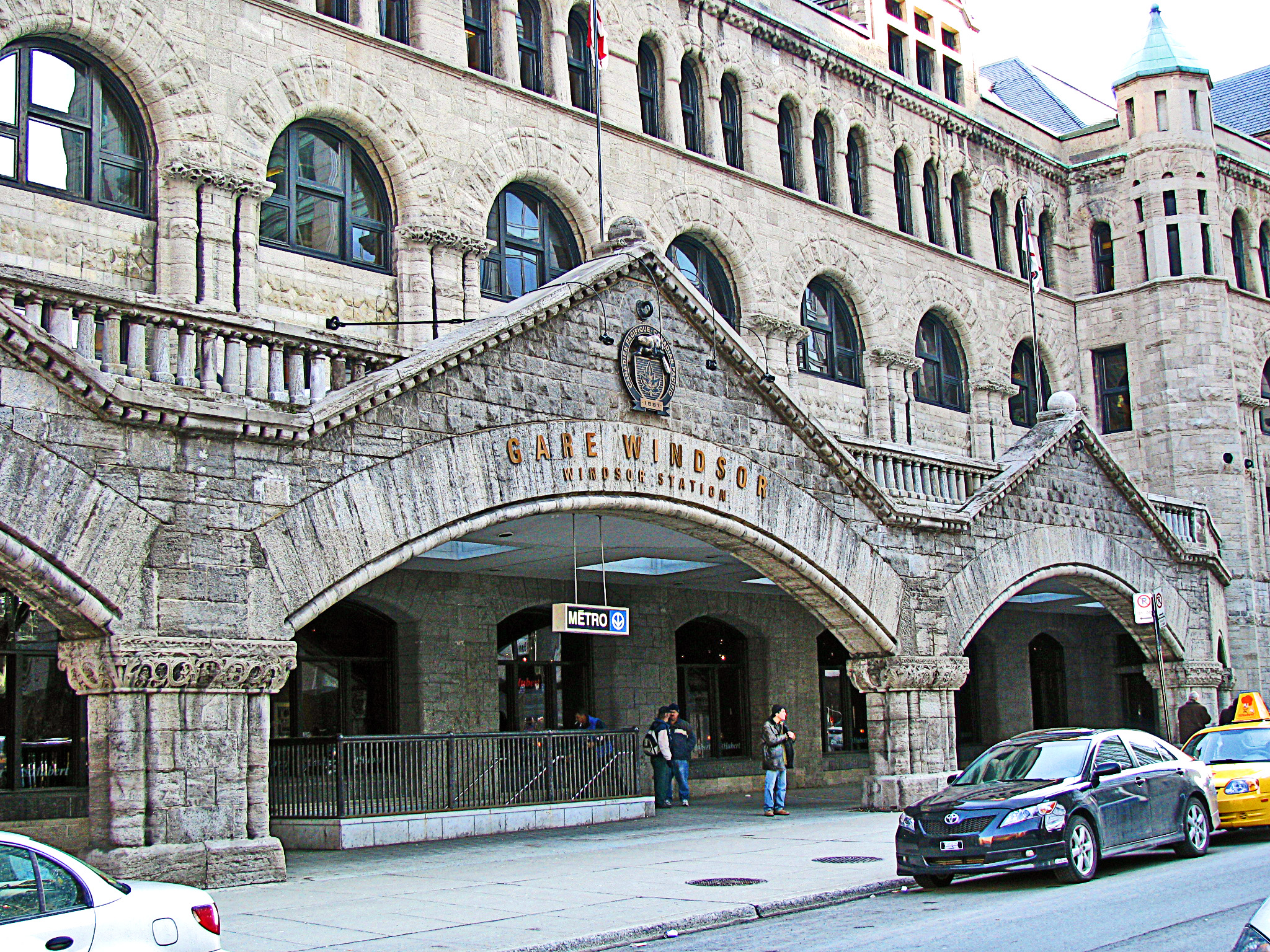 Main entrance of Windsor Station (Montreal)